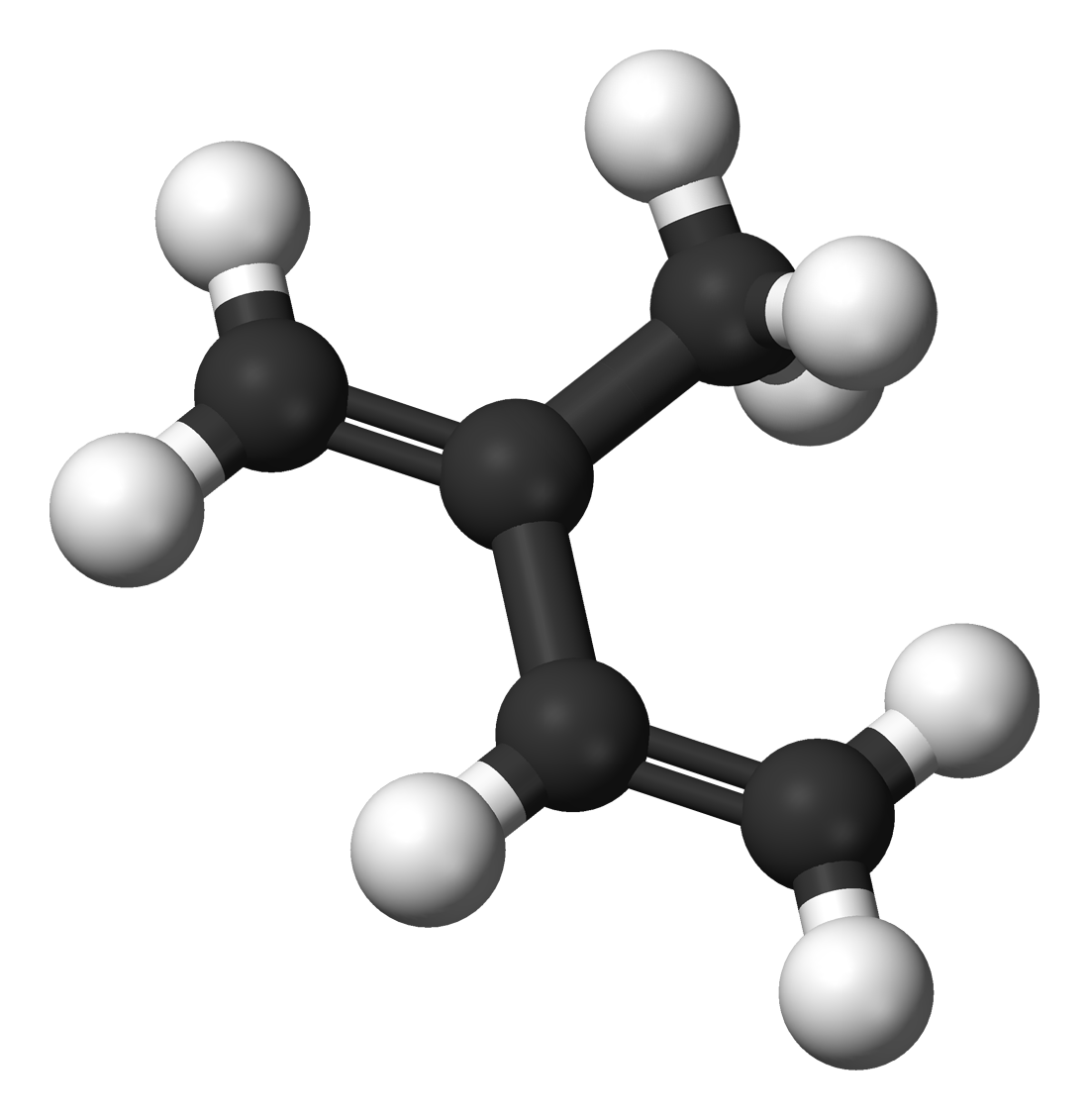 Ball-and-stick model of the isoprene molecule, an important building block for a group of natural chemicals called the terpenes.